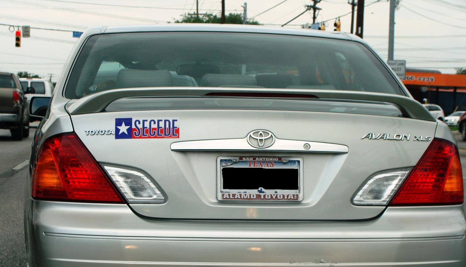 A Toyota in San Antonio, Texas, with a rear bumper sticker that reads "Secede", which refers to Governor Rick Perry's speech during which he mentioned "the right of Texas to secede from the union" during a "tea party" in Austin in April of 2009.[1] I have blackened out the license plate to keep the vehicle's owner anonymous.